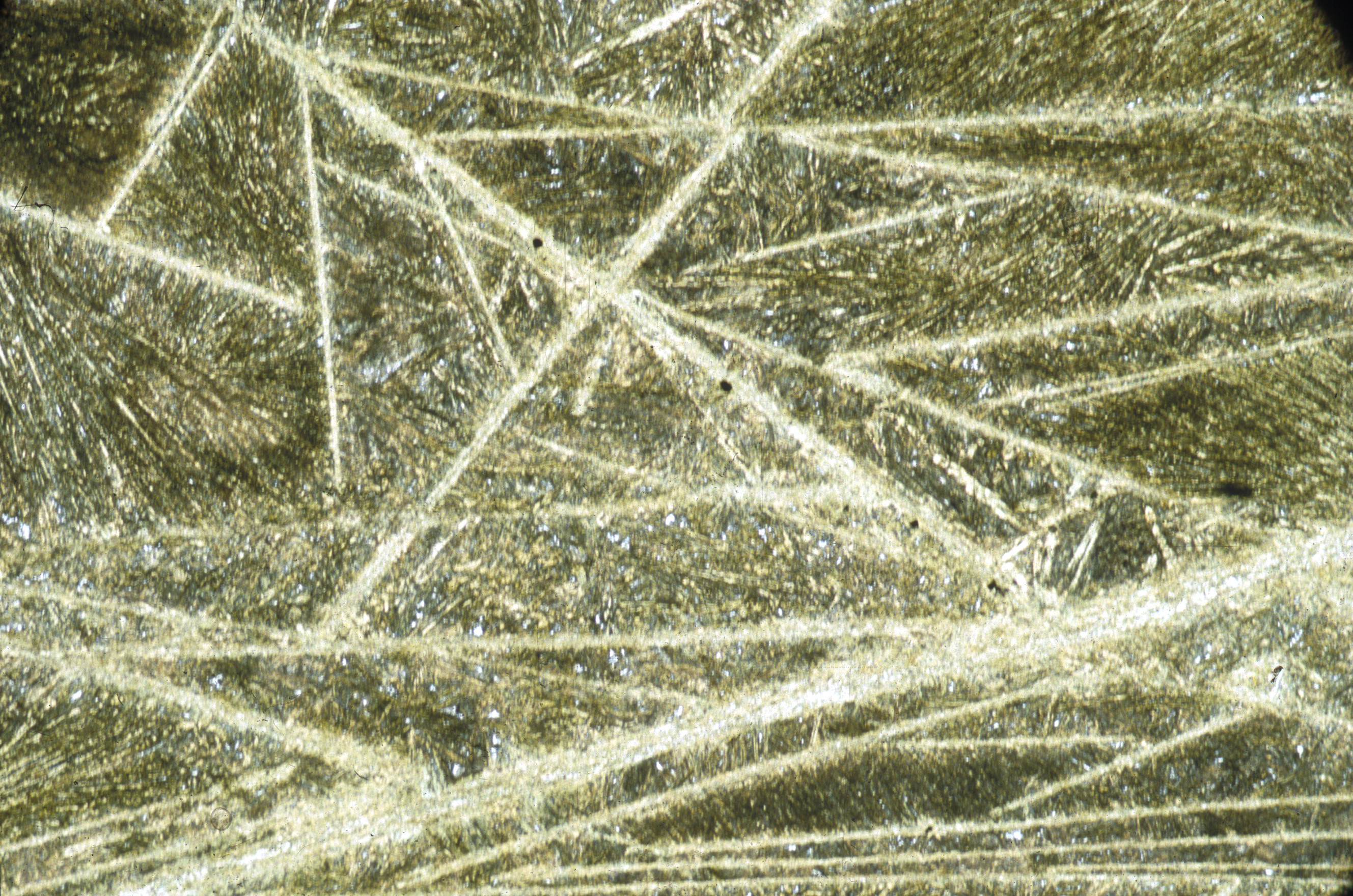 Photomicrograph of spinifex textured Archaean Komatiite pyroxene needles, plane light (FOV 15mm) Photo credit: S. Dowling